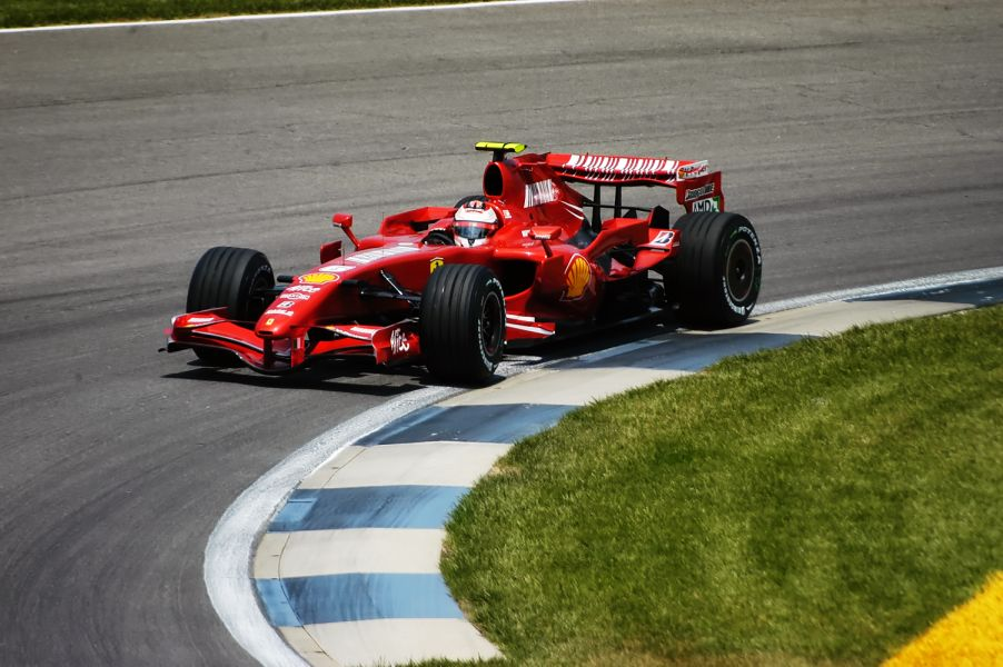 Kimi Räikkönen driving for Scuderia Ferrari at the 2007 United States Grand Prix.